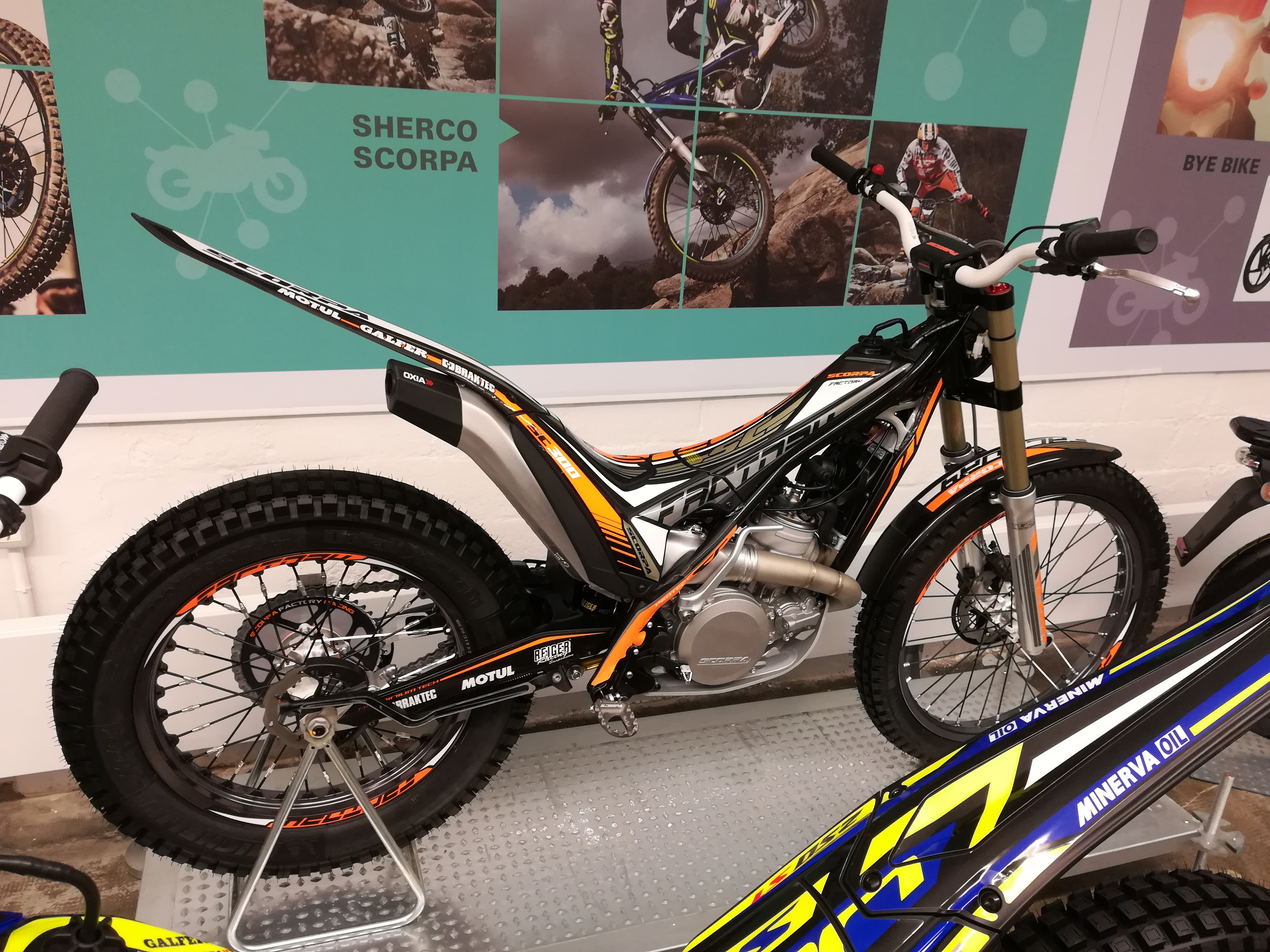 Scorpa SC Factory 300cc, 2017